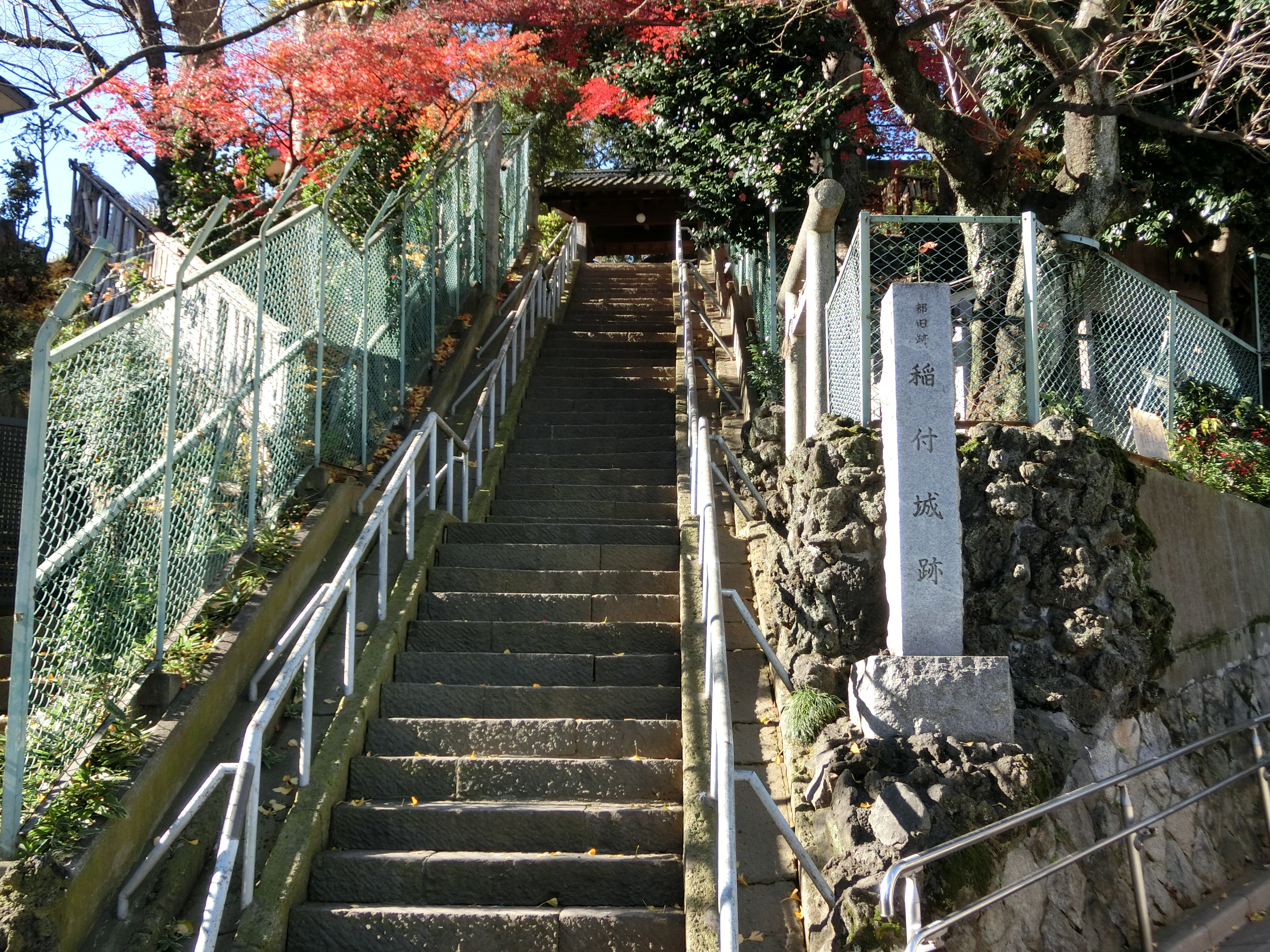 Ruins of Inetsuke Castle